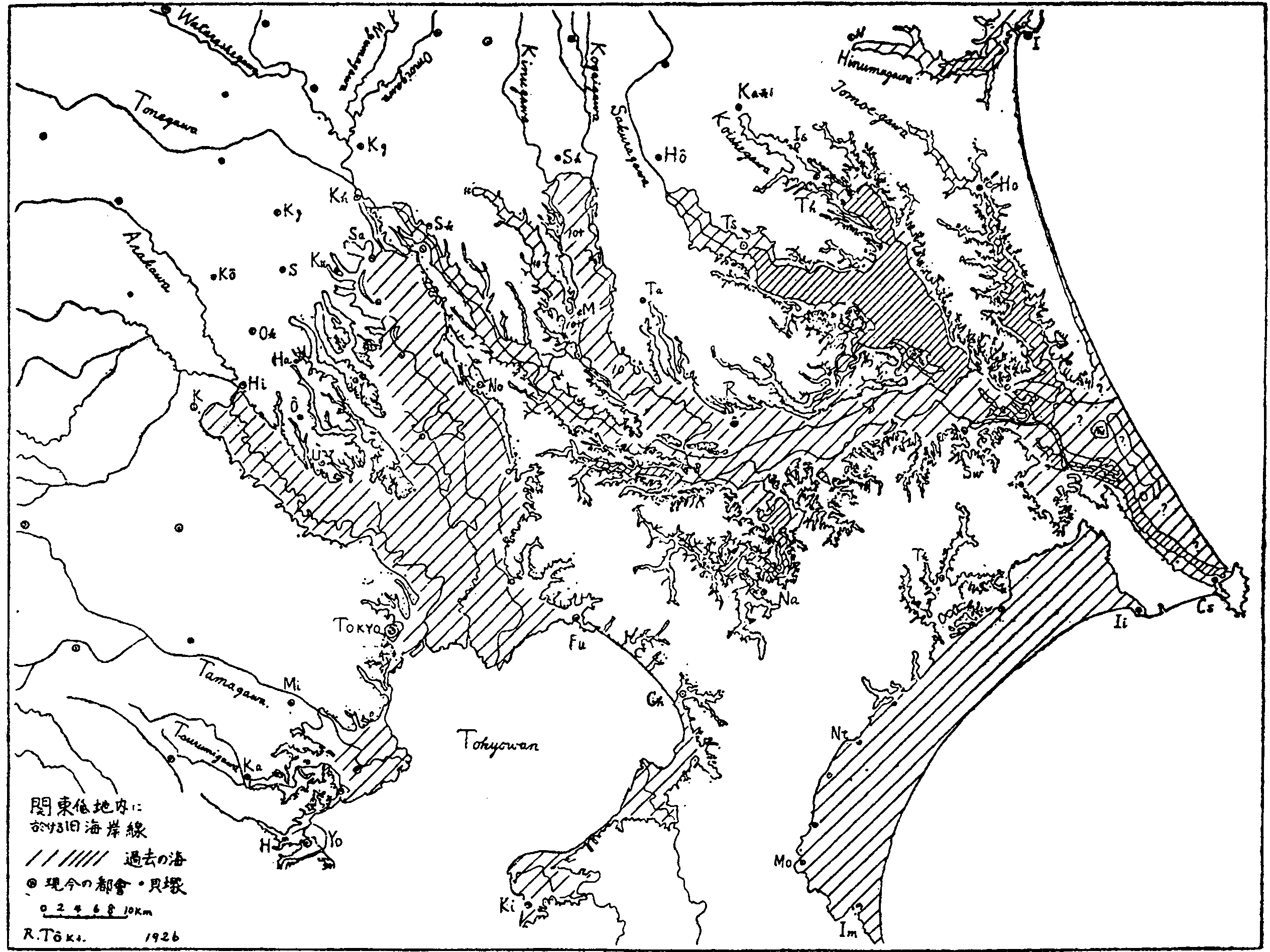 glacial retreat in Jomon period Kanto region in Jomon period from Ryushichi Touki(1926), “Old coastline around Low Kanto judged by topography and midden (i), (ii), (iii)” . Geographical criticism, 2 . p. 597-607, p. 659-678, p. 746-773.